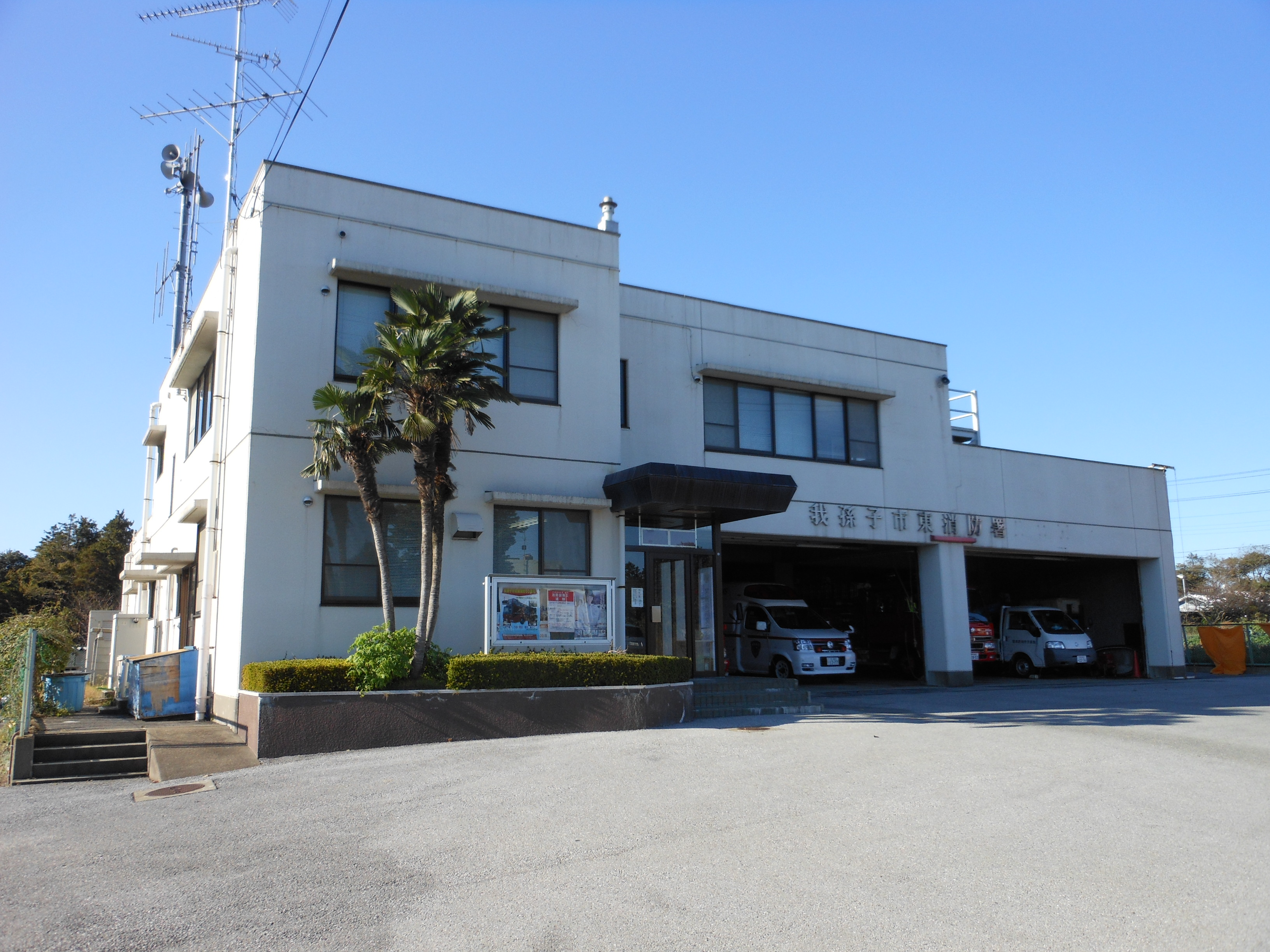 This is the East fire station of Abiko city fire department, which is located in Fusa, Abiko, Chiba, Japan.